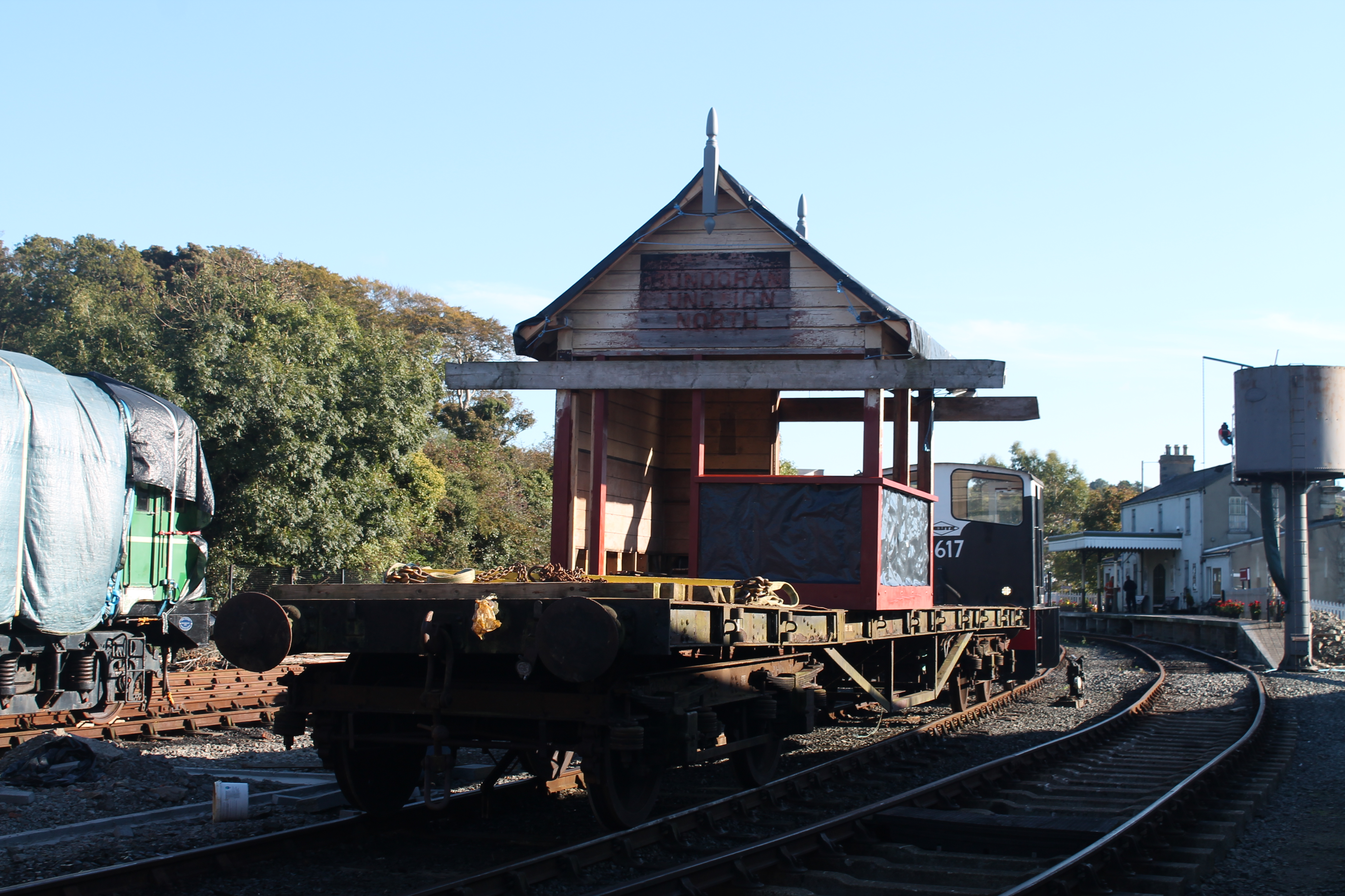 The former Bundoran Junction North signal cabin being hauled on a flat wagon by a G class diesel at Downpatrick.